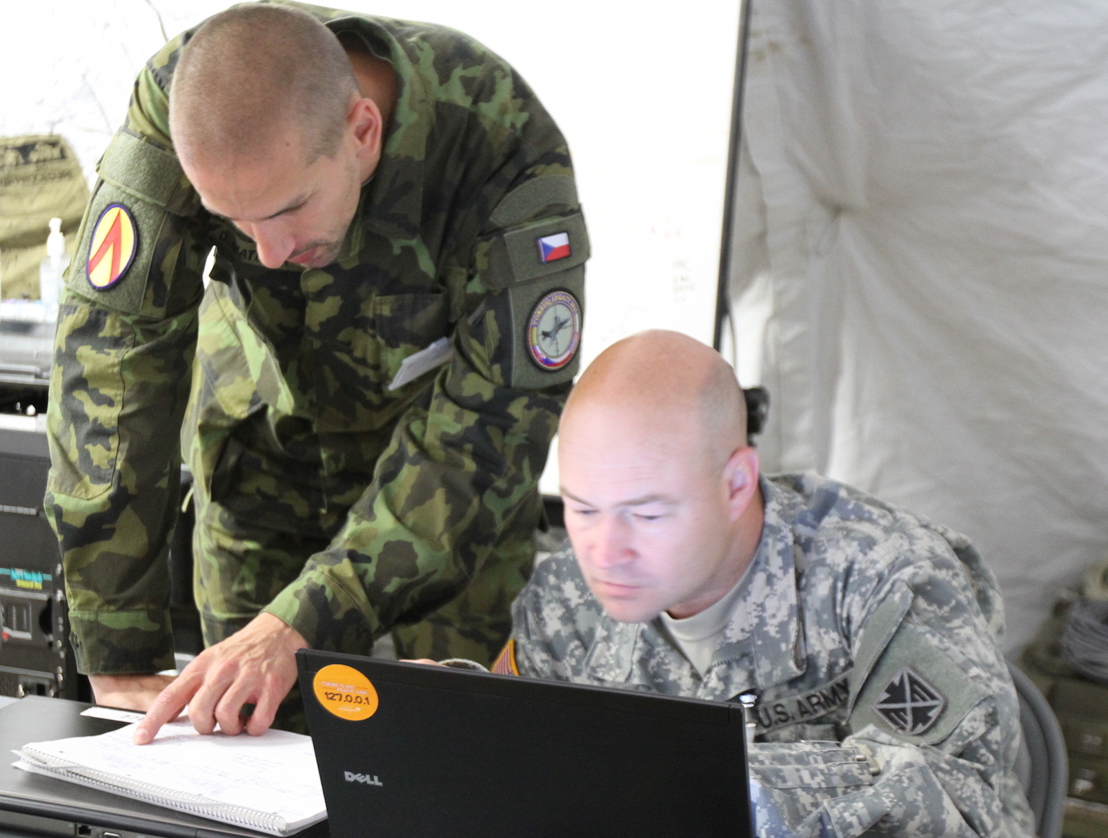 Capt. Dan Matejka, a Czech communications officer, and Chief Warrant Officer 3 Wesley Dohogn, the10th AAMDC command and control systems integrator, discuss communications techniques in the 10th Army Air and Missile Defense Command’s command and control shelter at exercise Tobruq Legacy. Tobruq Legacy is an Air Defense Airspace Surveillance (ASE) Sensor to Shooter Live Fire Exercise (LFX) being conducted in Czech Republic with air defense forces from United States, Czech Republic, Lithuania, Hungary and Slovakia. The exercise is scheduled for June 25 - July 3, at Maneuver Training Area Boletice, Czech Republic.